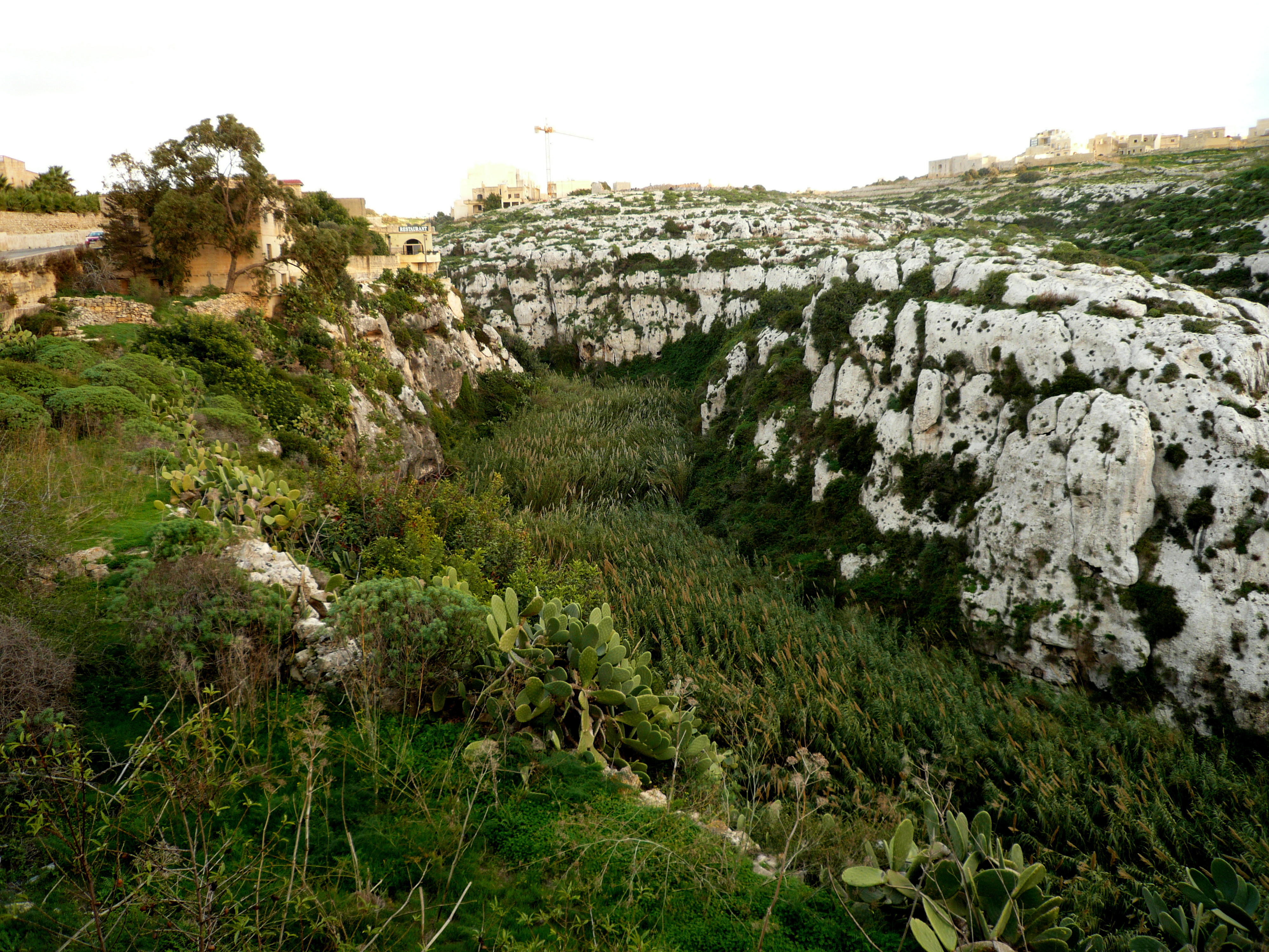 Wied Xlendi (valley near Xlendi, Gozo, Malta)